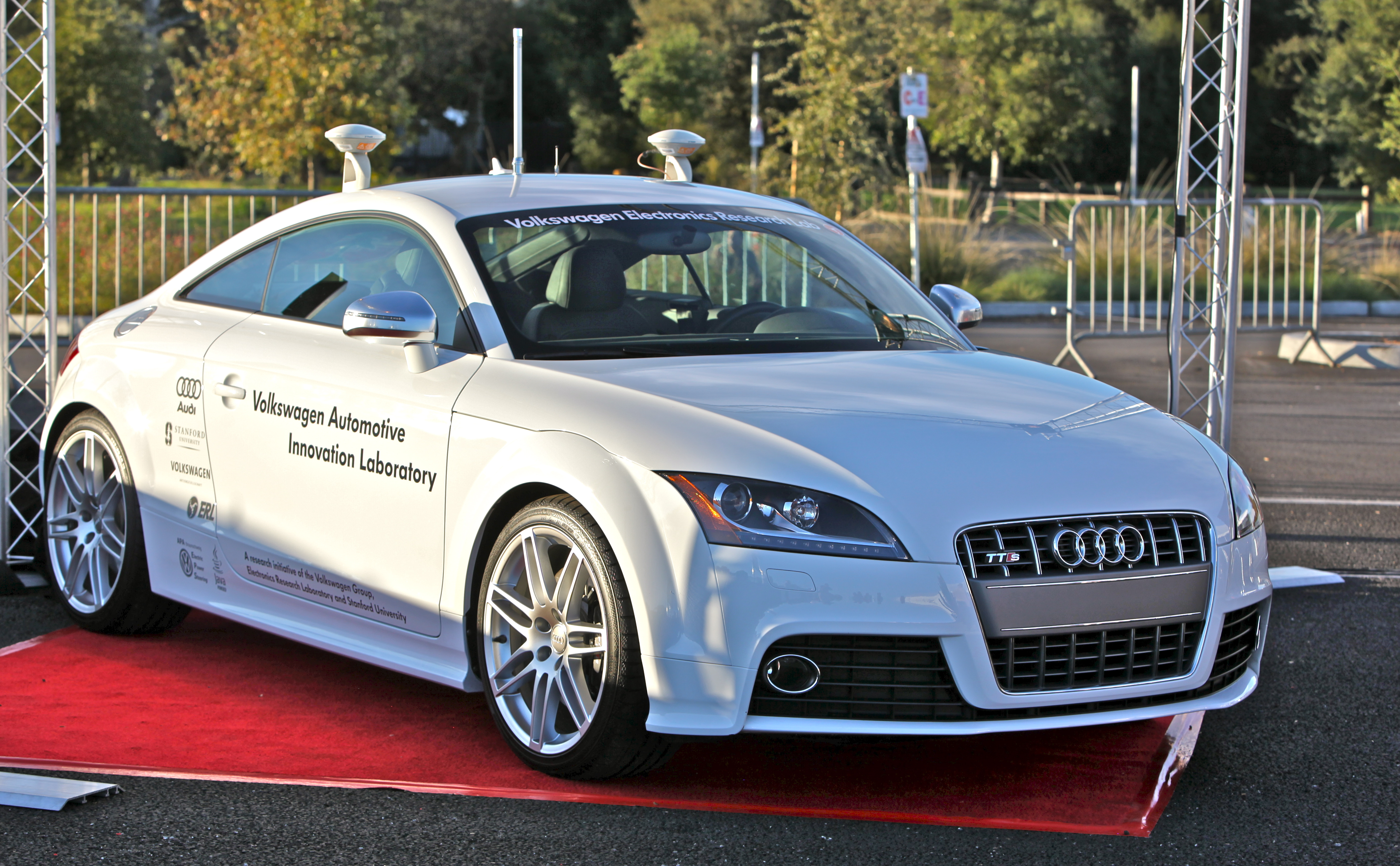 Drivers Wanted? Here’s a video of a VW parking at Stanford today. No drivers. No remote control. It parks itself. The trunk is full of computers. A Bosch video cam is mounted discretely near the rear-view mirror, like a rain sensor. Bespoke scanning LIDAR sensors for 3D mapping are mounted behind each rear wheel and behind the front grill logo. With the sensors out of sight, the robocar was breathtaking, like K.I.T.T. made manifest.